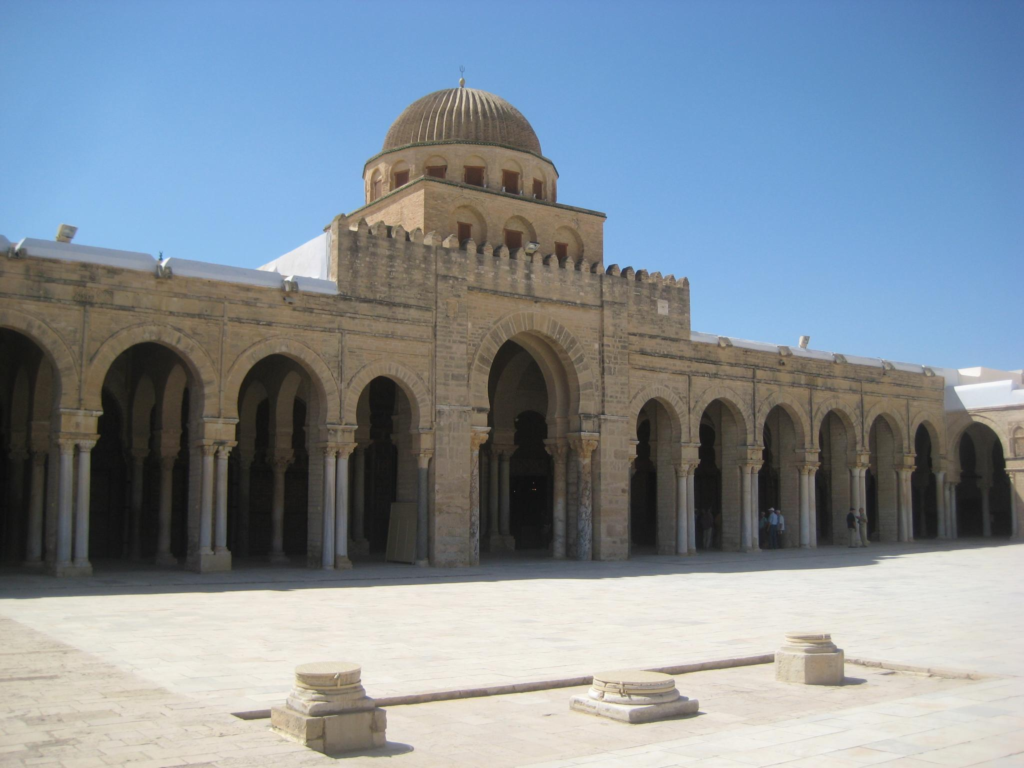 Prayer hall facade and courtyard of the Great Mosque of Kairouan also known as the Mosque of Uqba